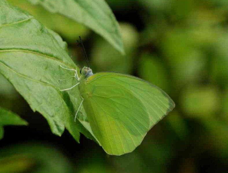 This picture is taken in Chintamoni Kar Bird Sanctuary. Narendrapur, Kolkata,India